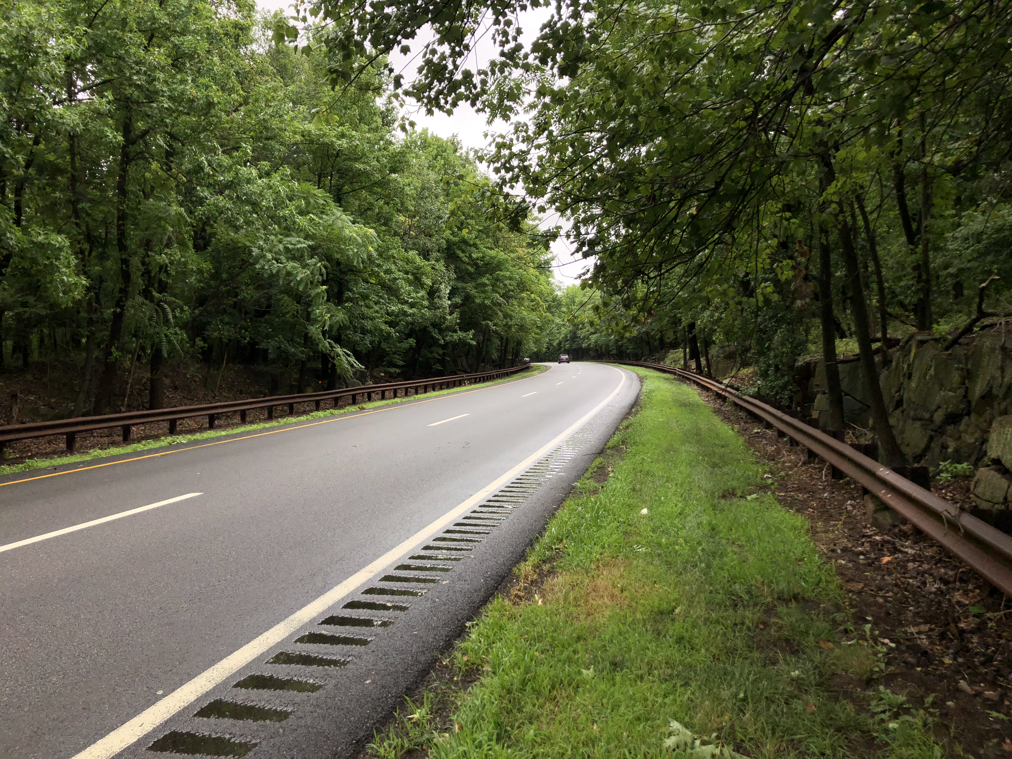 View south along New Jersey State Route 445 (Palisades Interstate Parkway) between Exit 2 and Exit 1 in Tenafly, Bergen County, New Jersey